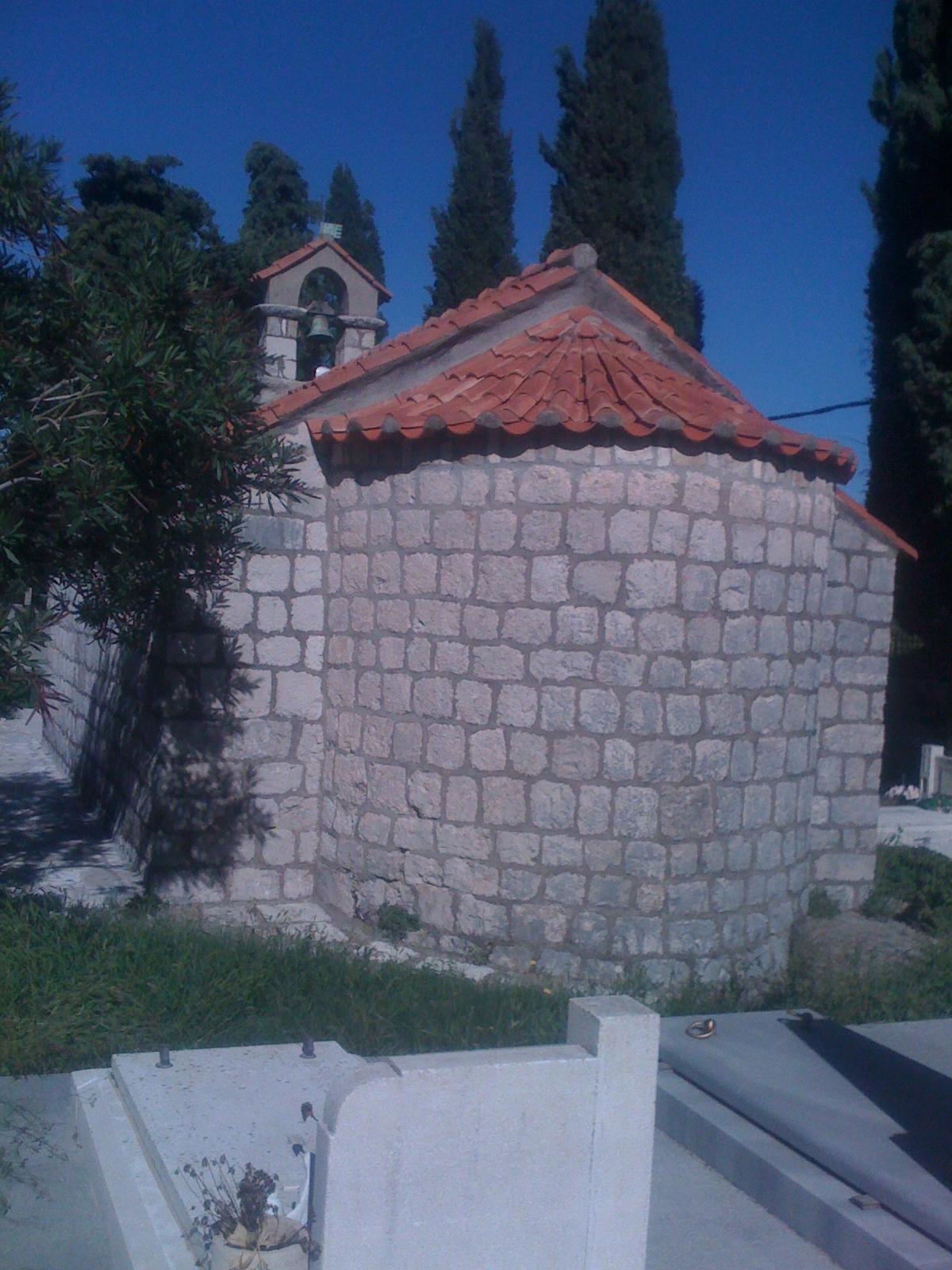 Holy Salvation church, Bosanka village